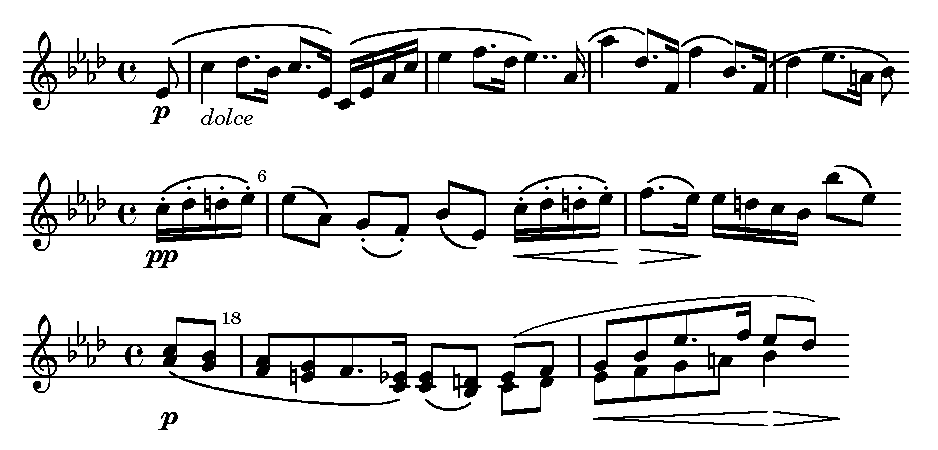 Themes of the third movement in Schumann's symphony no.3 bars 1 ff., 6ff., 18ff.